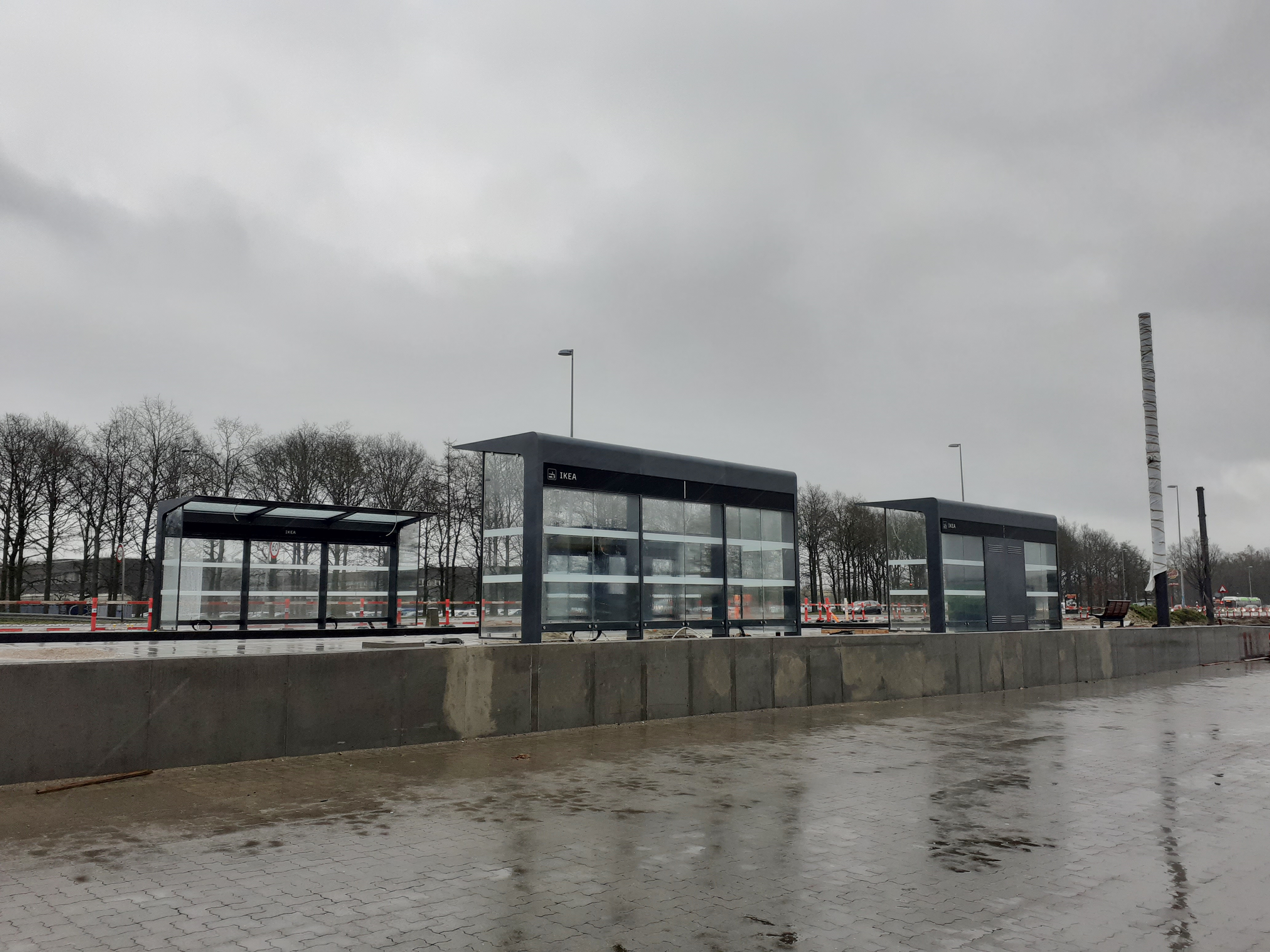 Construction of Ikea Station of Odense Letbane alongside Ørbækvej in Odense in Denmark.